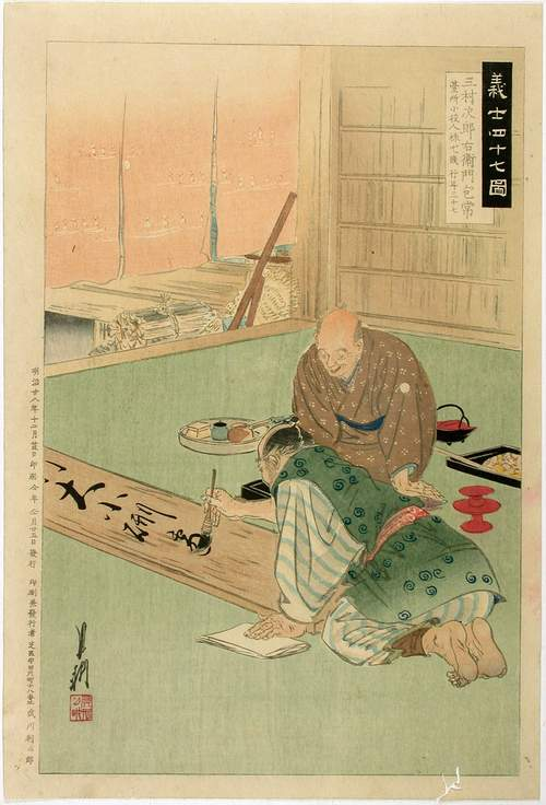 Ronin are masterless samurai. Chushingura is the true story of 47 samurai who became masterless in 1701, after their lord had been forced to commit ritual suicide (seppuku) for assaulting a court official who had insulted him. They avenged him by killing the court official after patiently planning for over a year. They were themselves then forced to commit seppuku.